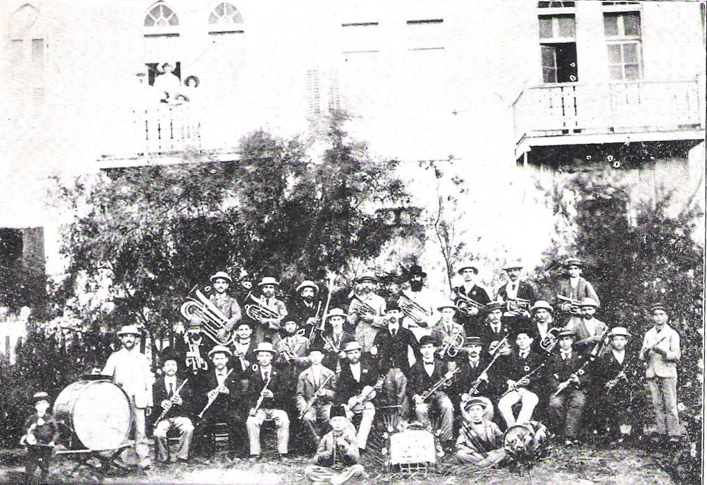 The picture are from old book (that was published in 1899), some of the picture are fro 1899, some are even older: This work or image is now in the public domain because its term of copyright has expired in Israel. According to Israel's copyright statute from 2007 (translation), a work is released to the public domain on 1 January of the 71st year after the author's death (paragraph 38 of the 2007 statute) with the following exceptions: A photograph taken on 24 May 2008 or earlier — the old British Mandate act applies, i.e. on 1 January of the 51st year after the creation of the photograph (paragraph 78(i) of the 2007 statute, and paragraph 21 of the old British Mandate act). If the copyrights are owned by the State, not acquired from a private person, and there is no special agreement between the State and the author — on 1 January of the 51st year after the creation of the work (paragraphs 36 and 42 in the 2007 statute). See also category: PD Israel & British Mandate. For the scan and the the crop: The name of the book (in hebrew) is: "מראה ארץ ישראל והמושבות" by (in hebrew): "ישעיהו ראפאלוביטש ושותפו משה אליהו זאכס" Orchestra in Rishon LeZion